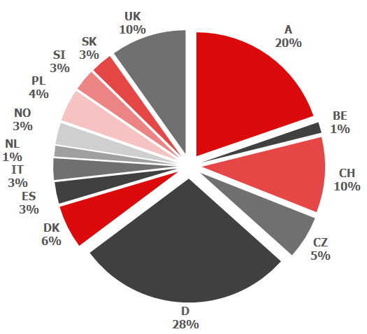 Members at the EXAA spot market by country.